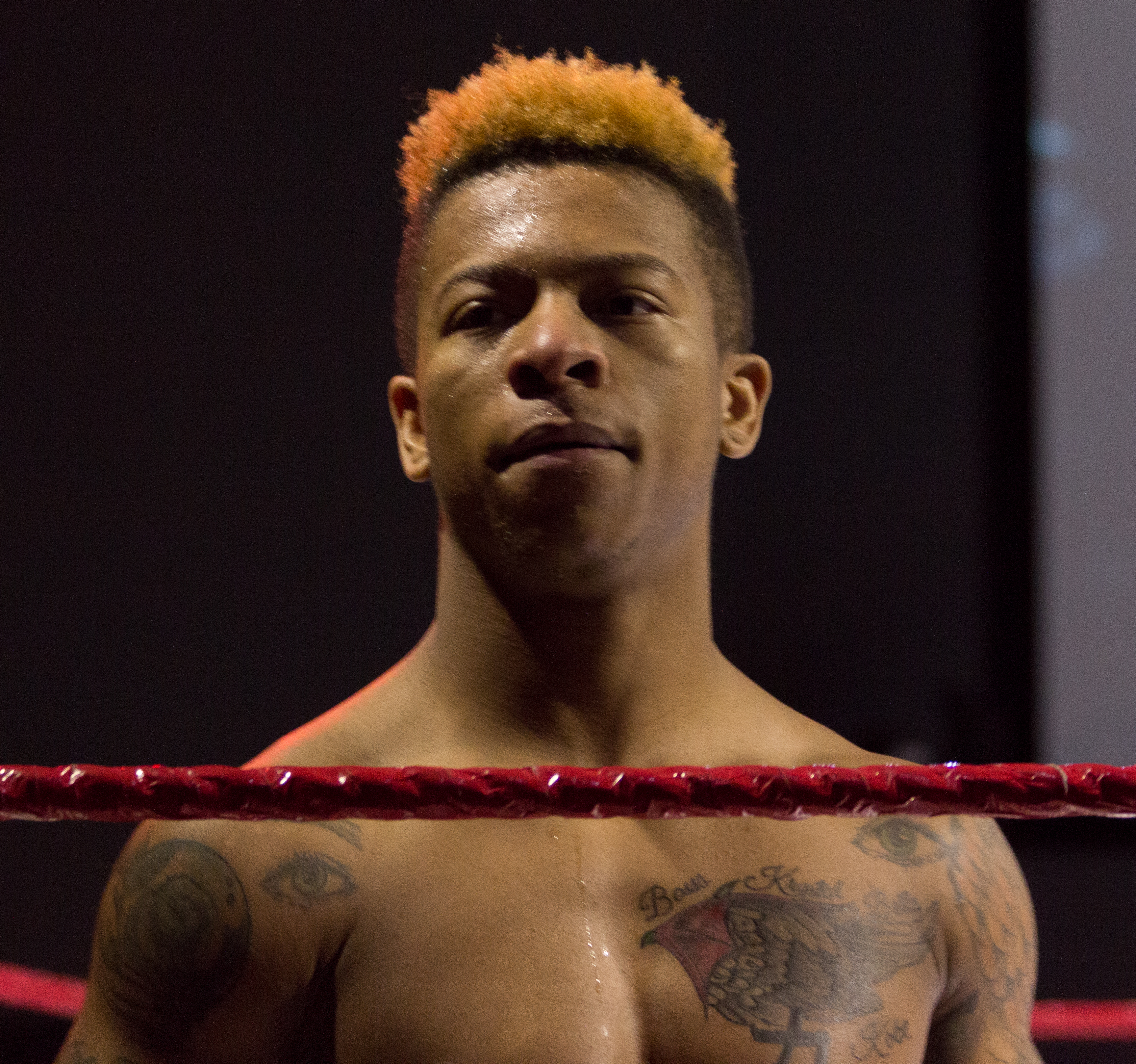 Lio Rush in the ring at a Destiny Wrestling show in Mississauga, ON